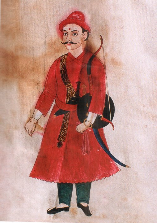 Kirtiman Singh Basnyat, Nepalese Mulkazi(PM) and Nepali Army General during Tibet Nepal war 1788 AD. Also son of war hero Kehar Simha Basnyat. Further details about Kirtiman Singh Basnyat and Tibet War